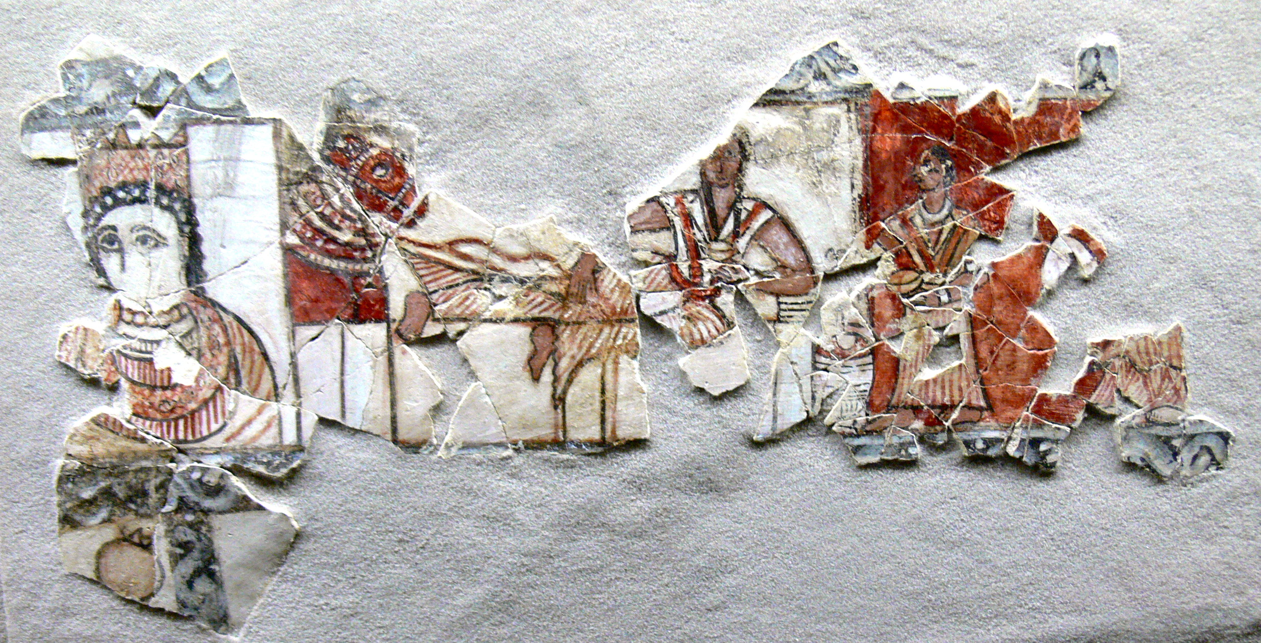 Pergamon Museum ( Berlin ). Exhibition "Roads of Arabia": Fragment of a wall painting with a banquet scene ( 1st/2nd century AD ), black and red paint on white plaster, 58x32 cm, from Qaryat al-Faw, residential district ( Department of Archaeology, King Saud University, Riyadh ).